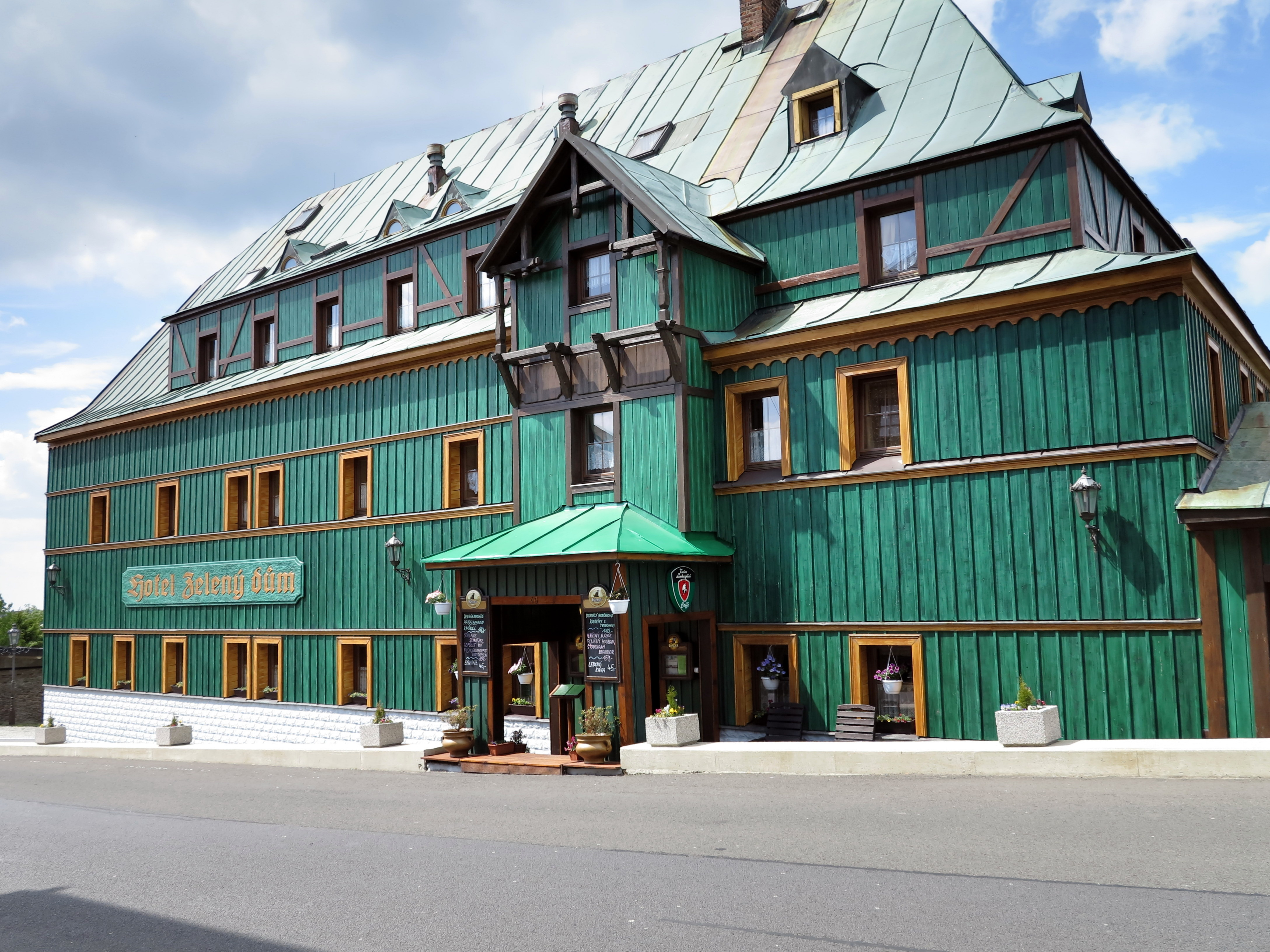 Hotel Zelený dům in Boží Dar in the Ore Mountains / Karlovy Vary Region / Czech Republic / EU